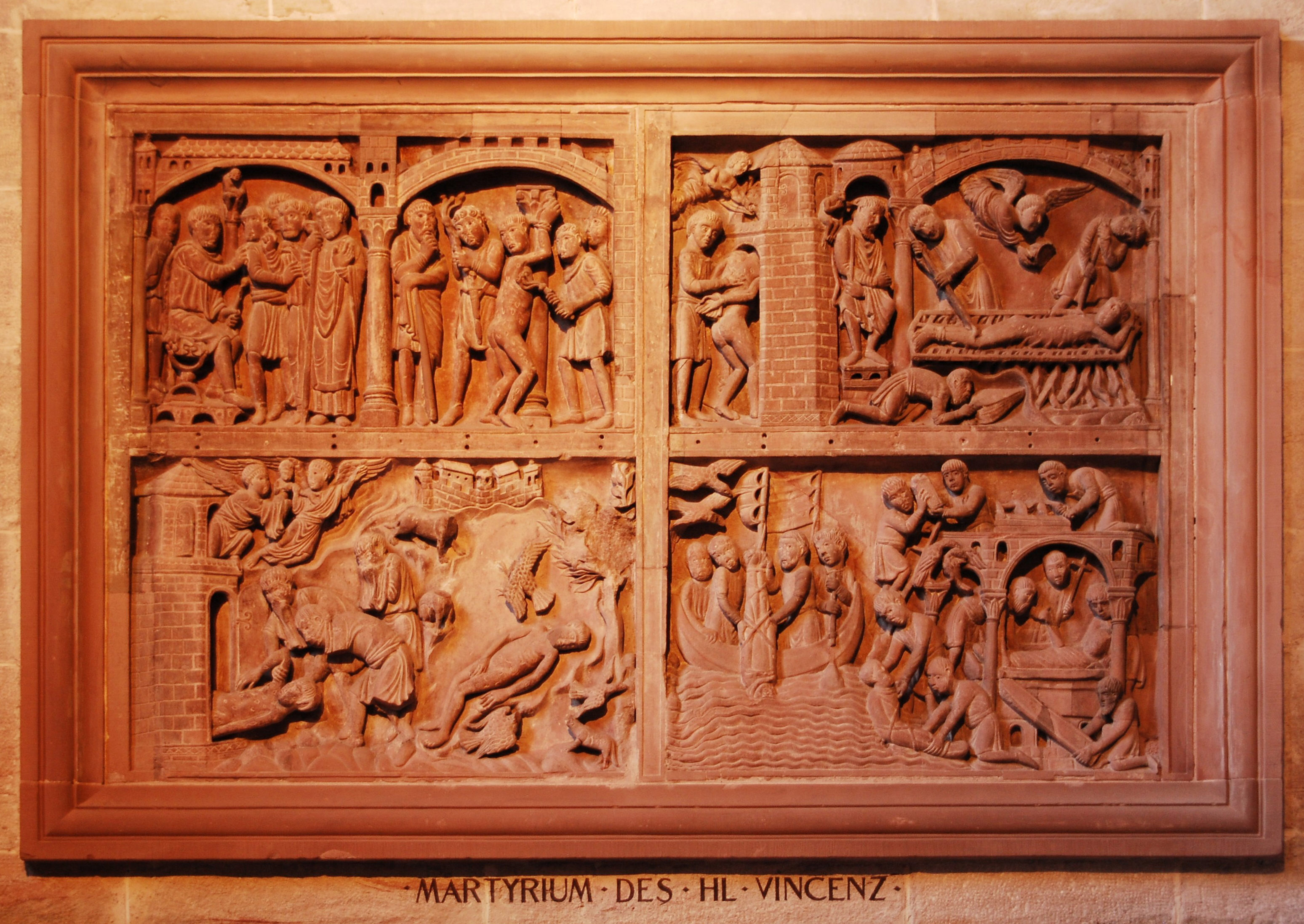 Basler Münster: plate showing the martyrdom of Vincent of Saragossa